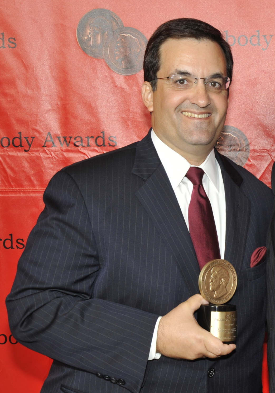 PHOTO CREDIT: ANDERS KRUSBERG / PEABODY AWARDS Kary Antholis, 70th Annual Peabody Awards Luncheon Waldorf=Astoria Hotel May 23, 2011